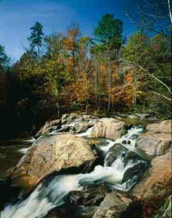 Moores Mill Creek flowing through Chewacla State Park in Auburn, Alabama, USA.